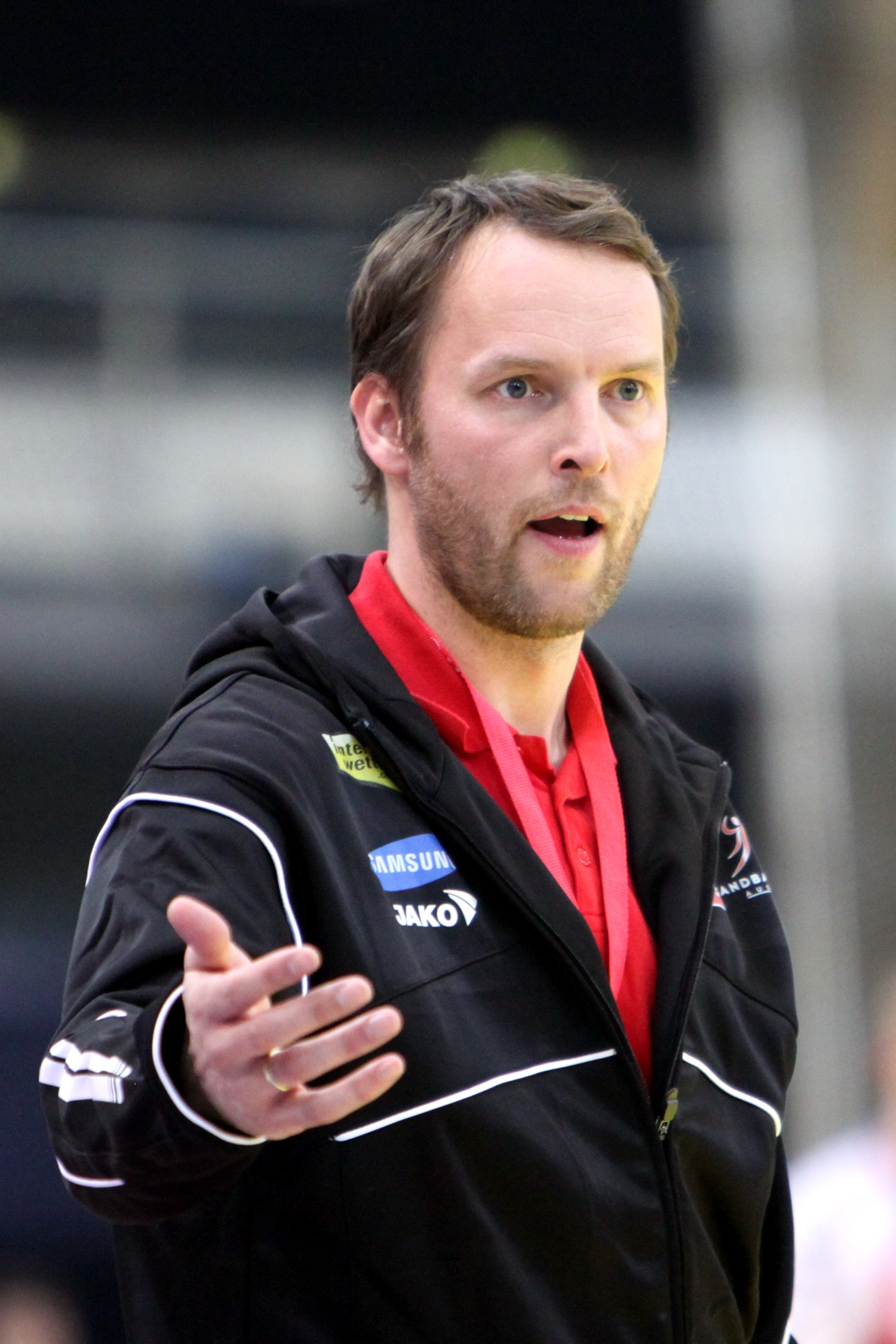 Dagur Sigurðsson (Teamchef), Austria national handball team